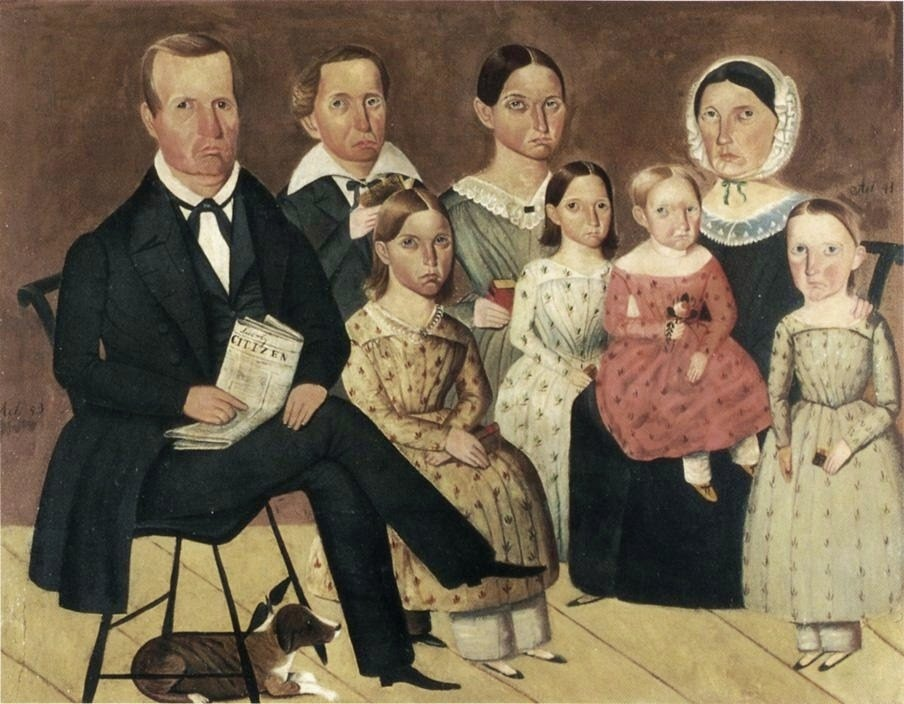 Sheldon Peck (American painter, 1797-1868) The John G. Wagner Family